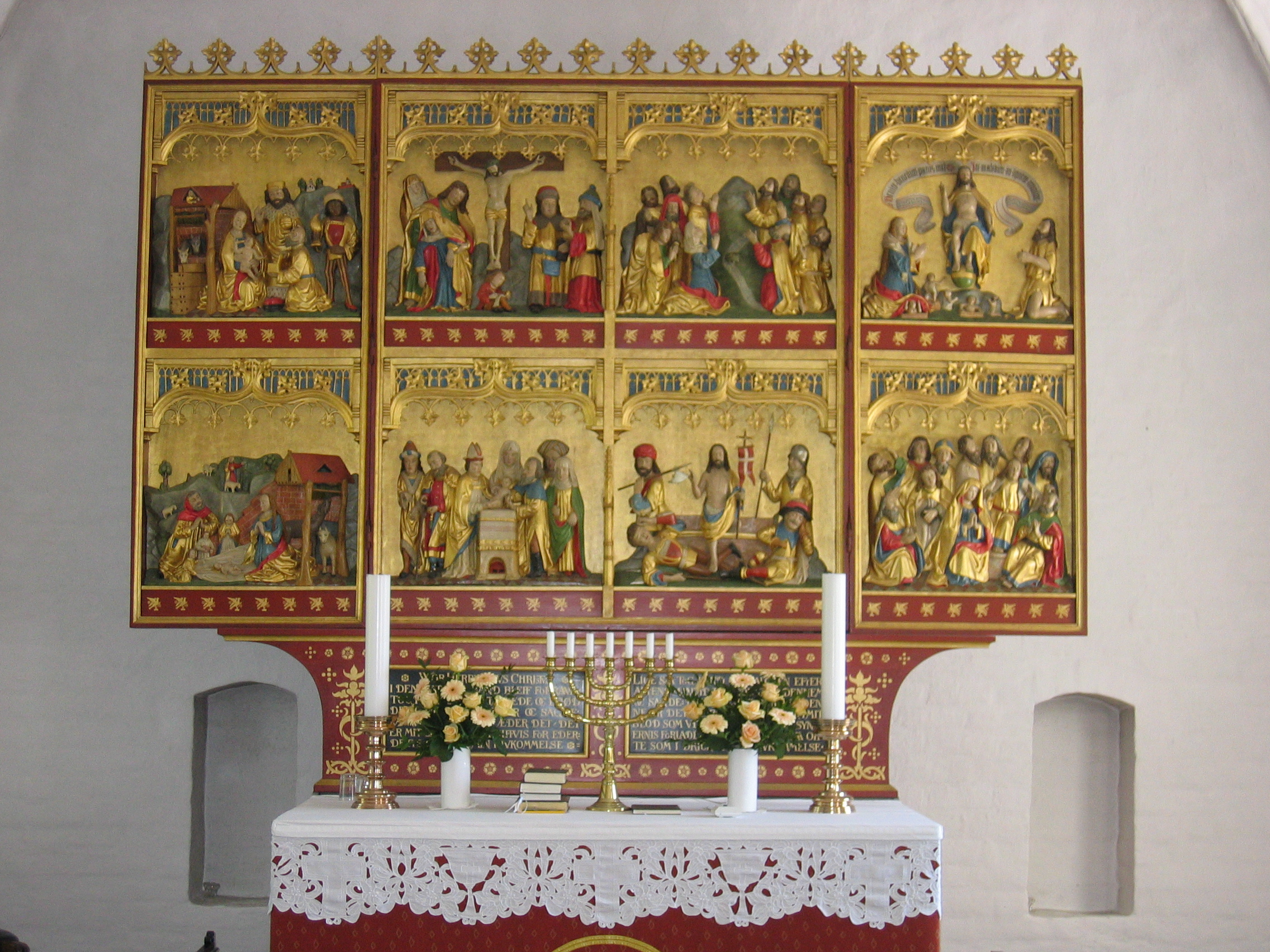 Tibirke Church, Tibirke parish, Holbo Herred, Frederiksborg County, Denmark.